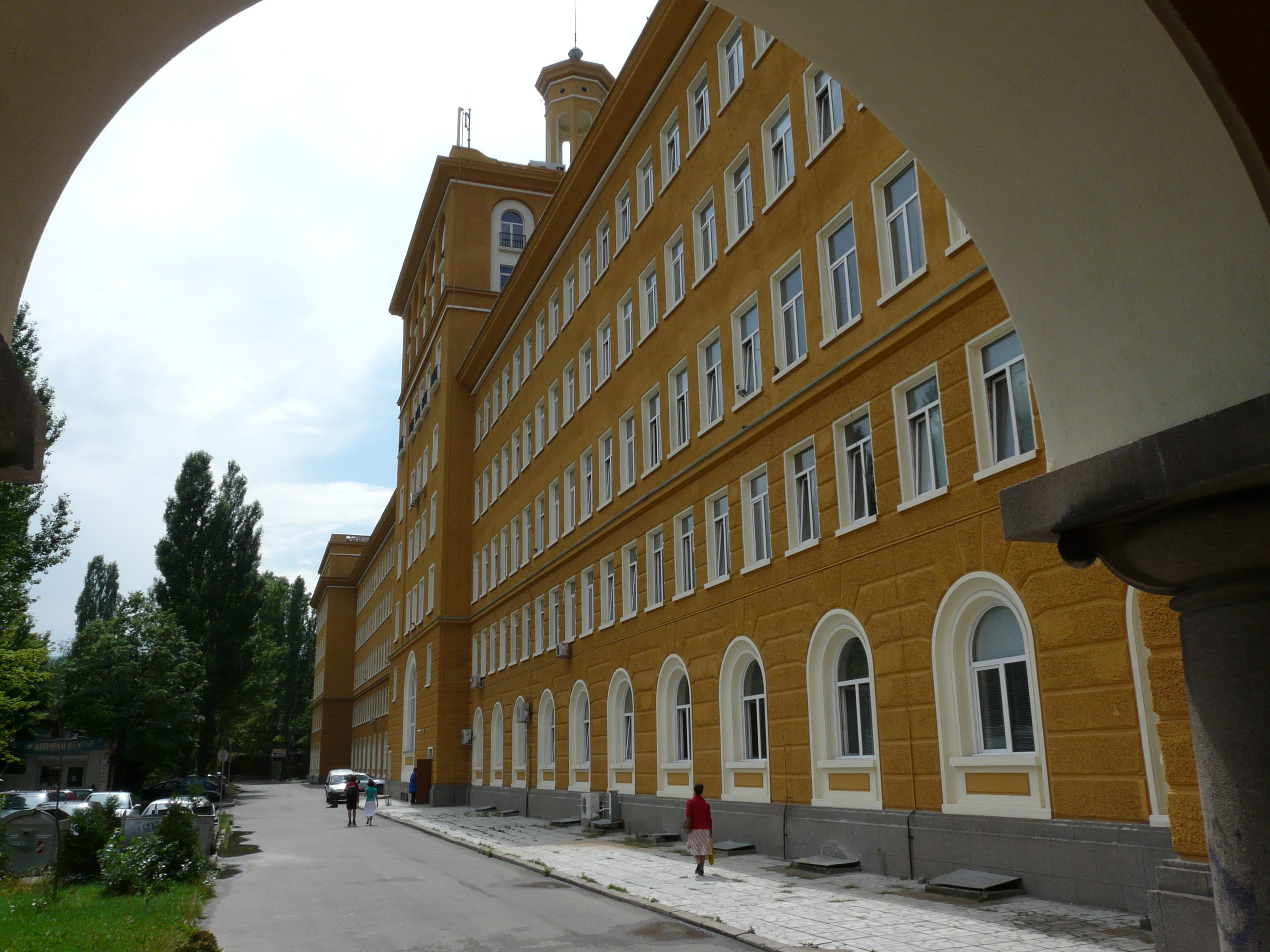 Faculty of Chemistry - Sofia University